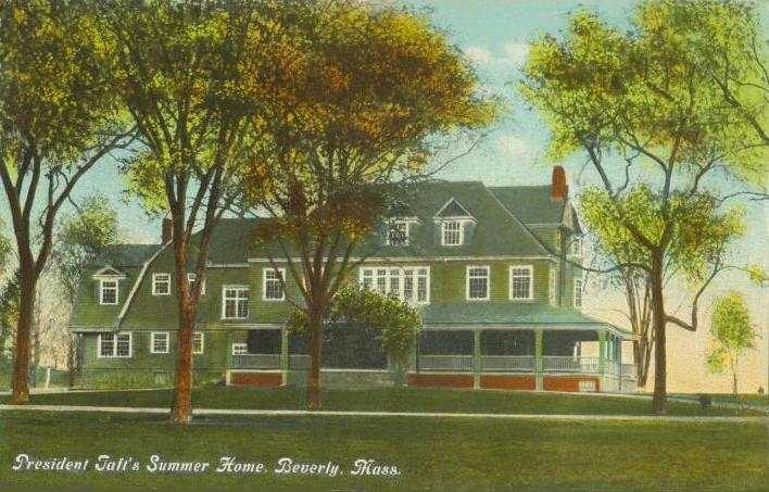 President Taft's Summer Home, Beverly, MA; from a 1909 postcard.